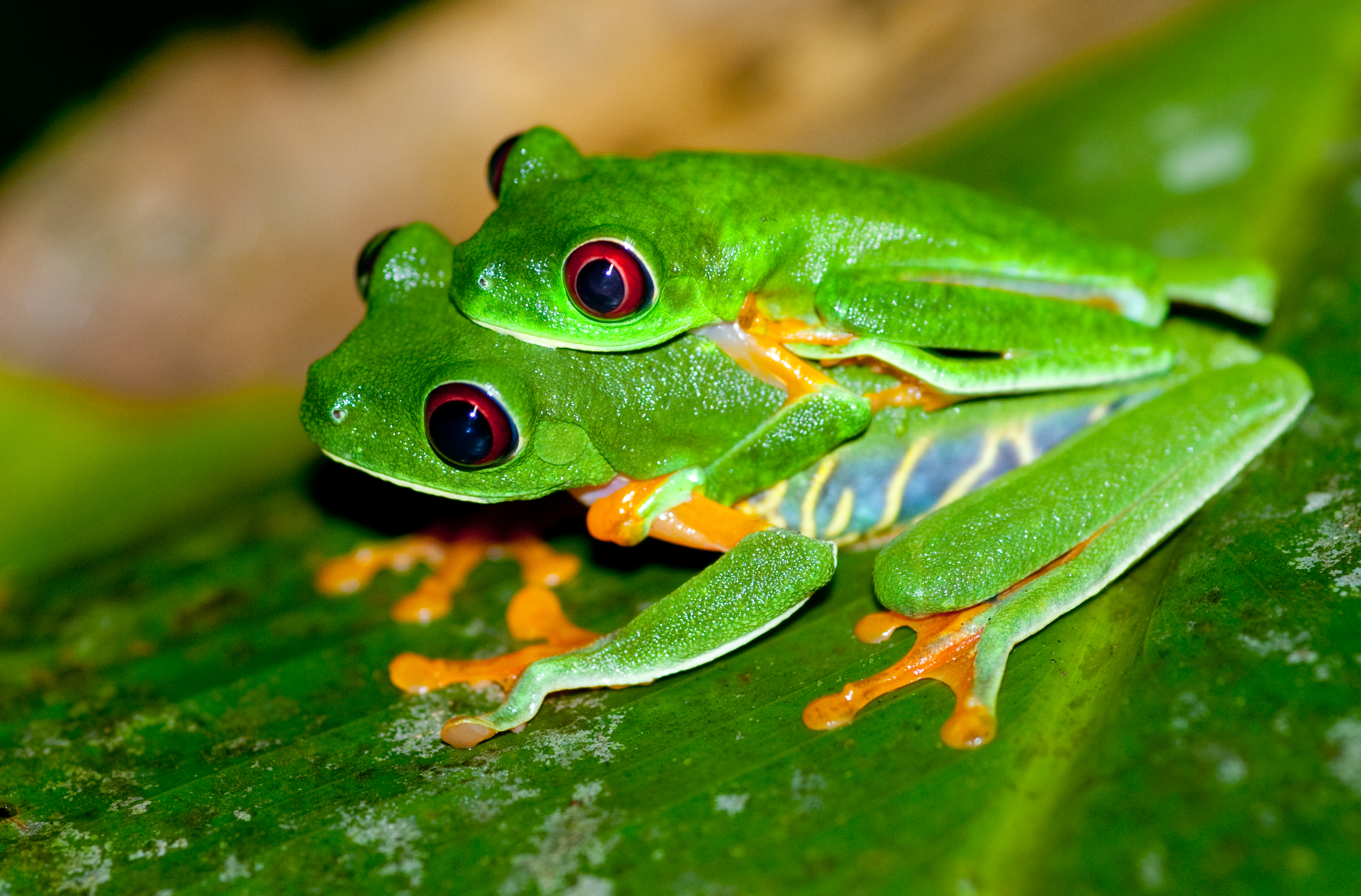 Red-eyed tree frog mating pair.